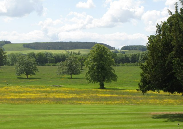 Chesters Estate south of Chesters Walled Garden. See 1461071.